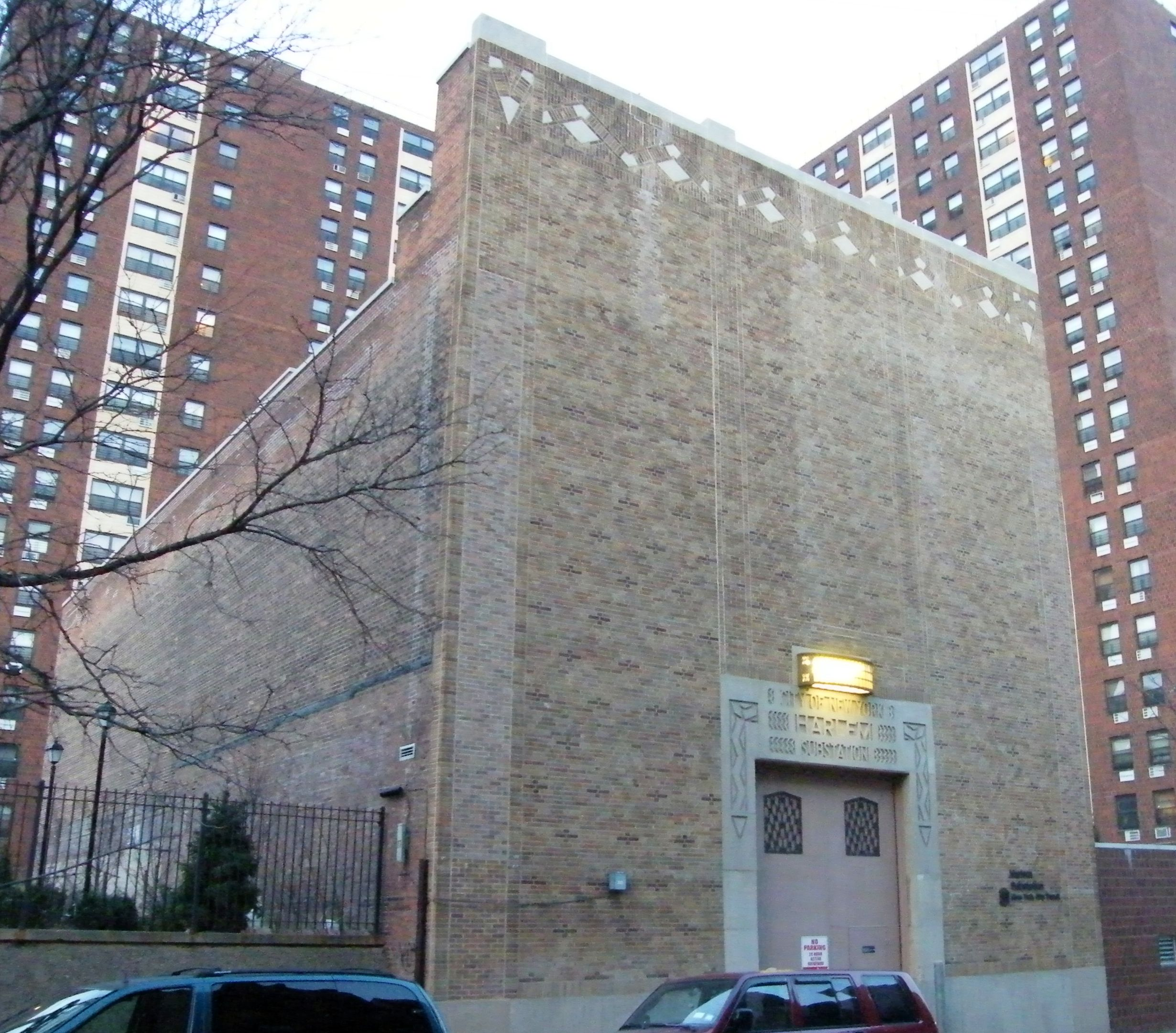 Substation 219 at 309 w 133 on National Register of Historic Places in New York City